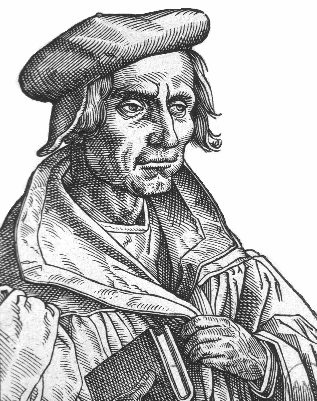 Otto Brunfels (also known as Brunsfels or Braunfels) (1488 - 1534)